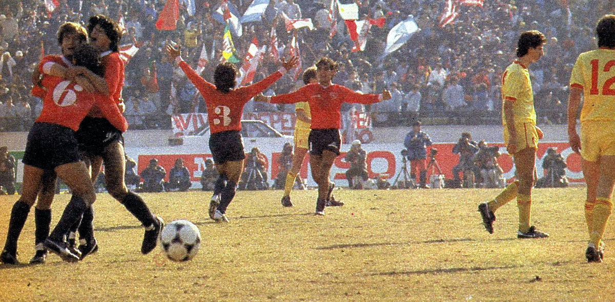 Pedro Monzón, Claudio Marangoni, Enzo Trossero, Carlos Enrique and Alejandro Barberón celebrating at the end of the match between Independiente and Liverpool FC for the Intercontinental Cup. The match was disputed on December, 1984 in Tokio and Independiente won the trophy.